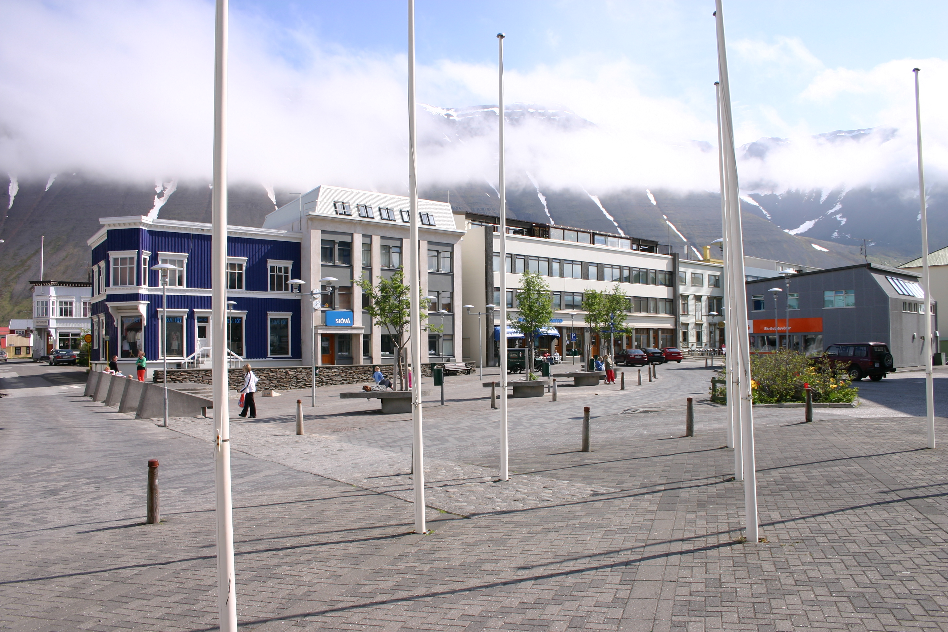 Isafjordur, Westfjords, Iceland. June 2008.